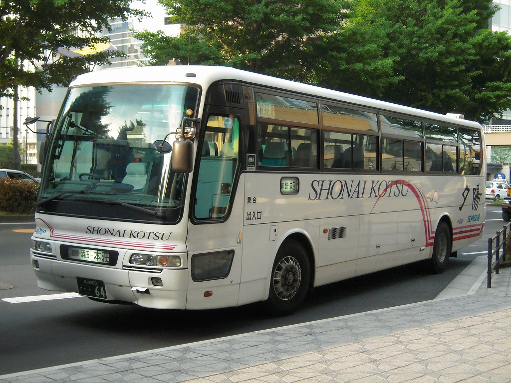 Shonai Kotsu Mitsubishi Fuso Aero Bus (KL-MS86MP) Highwaybus Sendai-Sakata-Yurihonjo